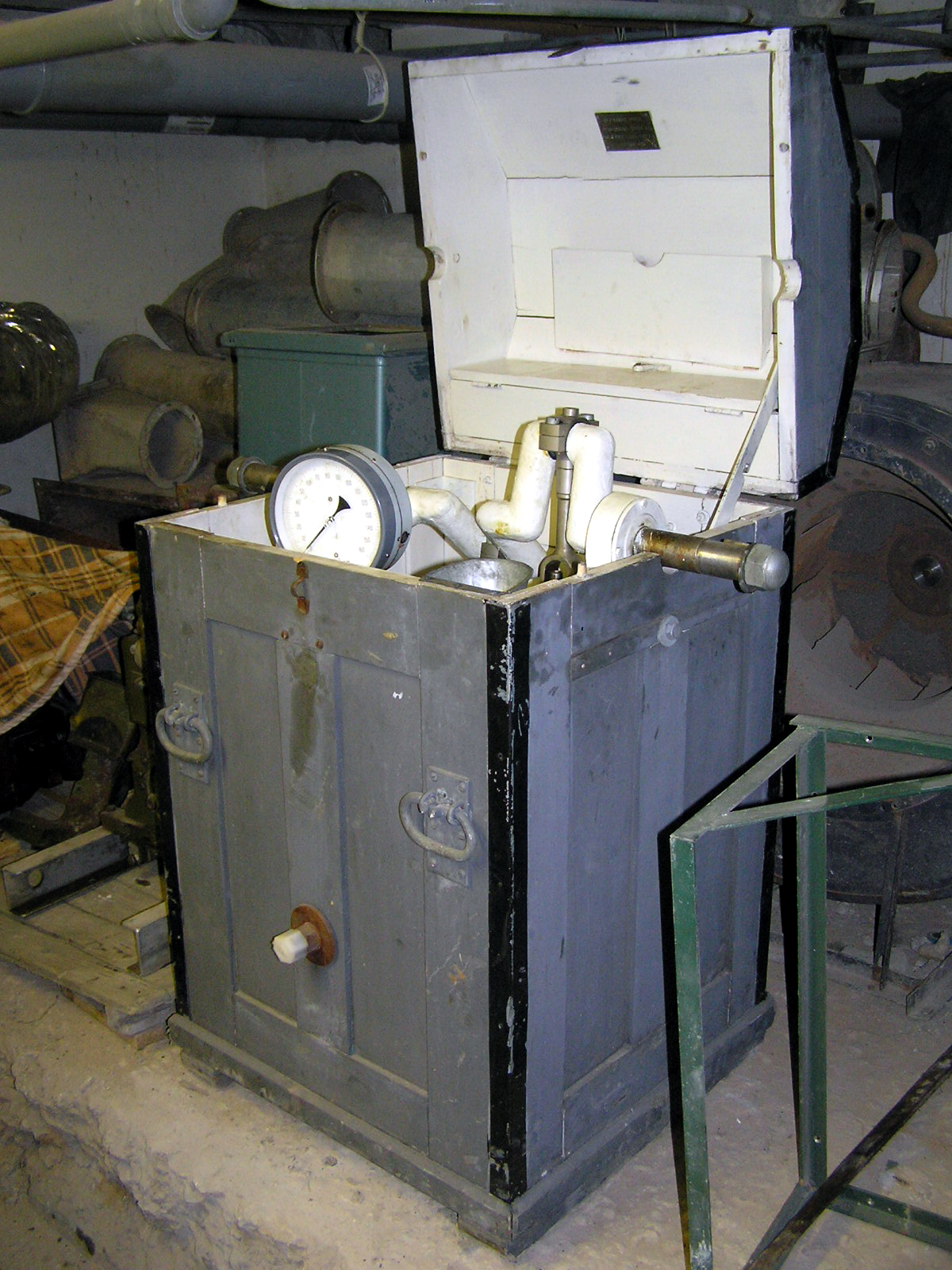 This is a Soviet/Russian three cylinder diver's air pump – "П3". Manufactured in 1977.